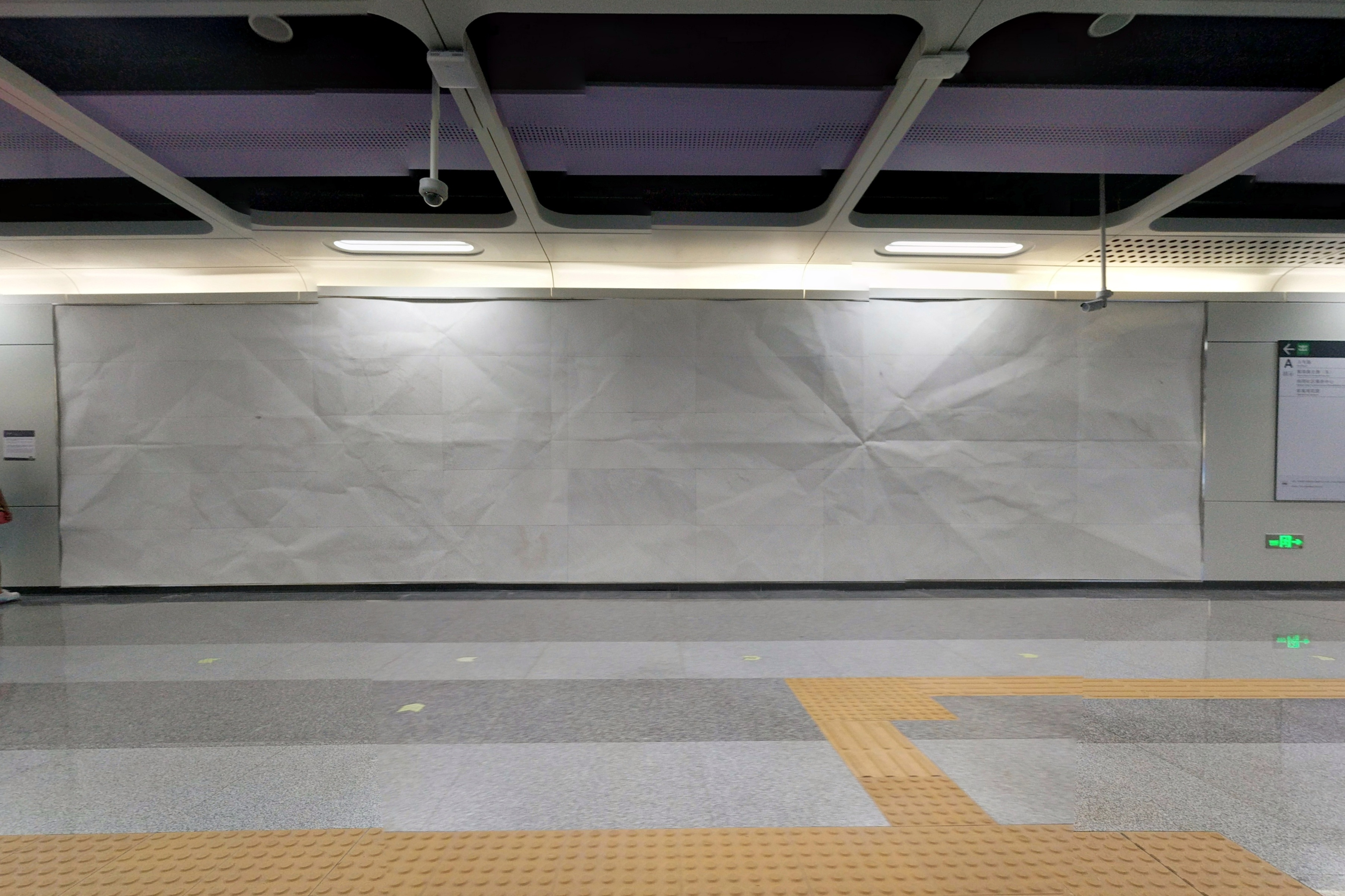 SZMC Line5 Mawan Station Artwork Blueprint